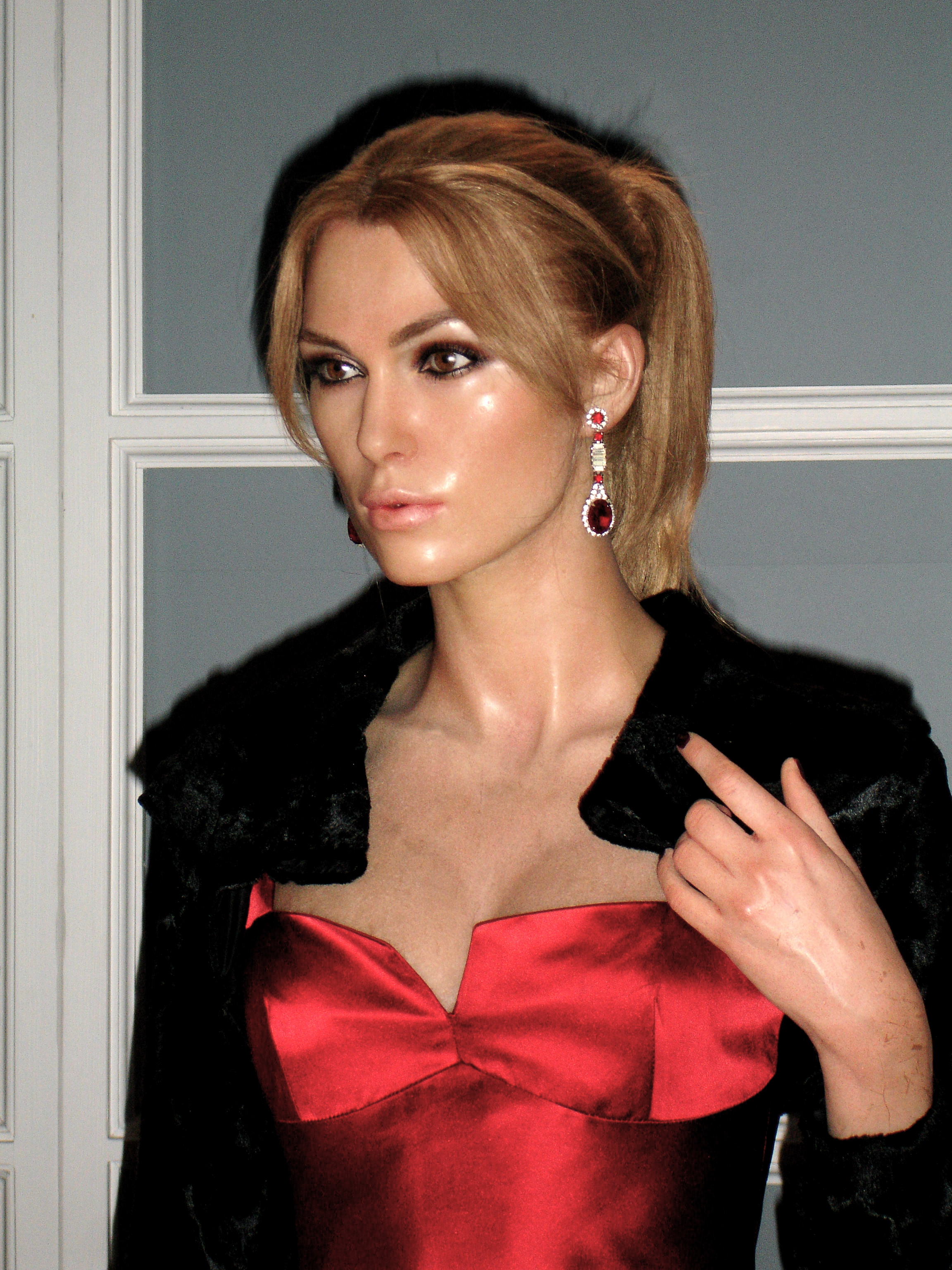 Madame Tussauds London - Keira Knightley